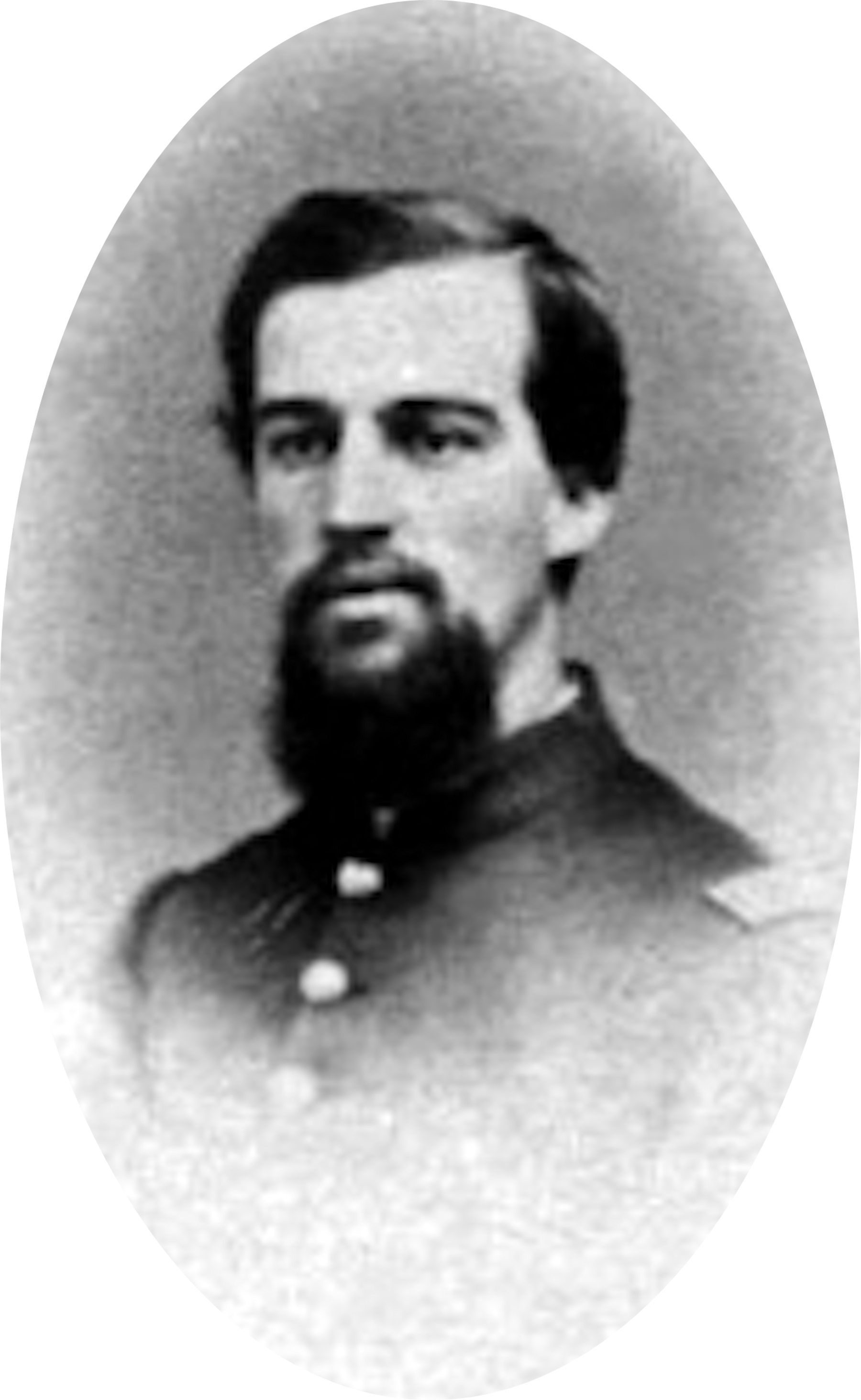 MoH winner Thomas William Hoffman 1865